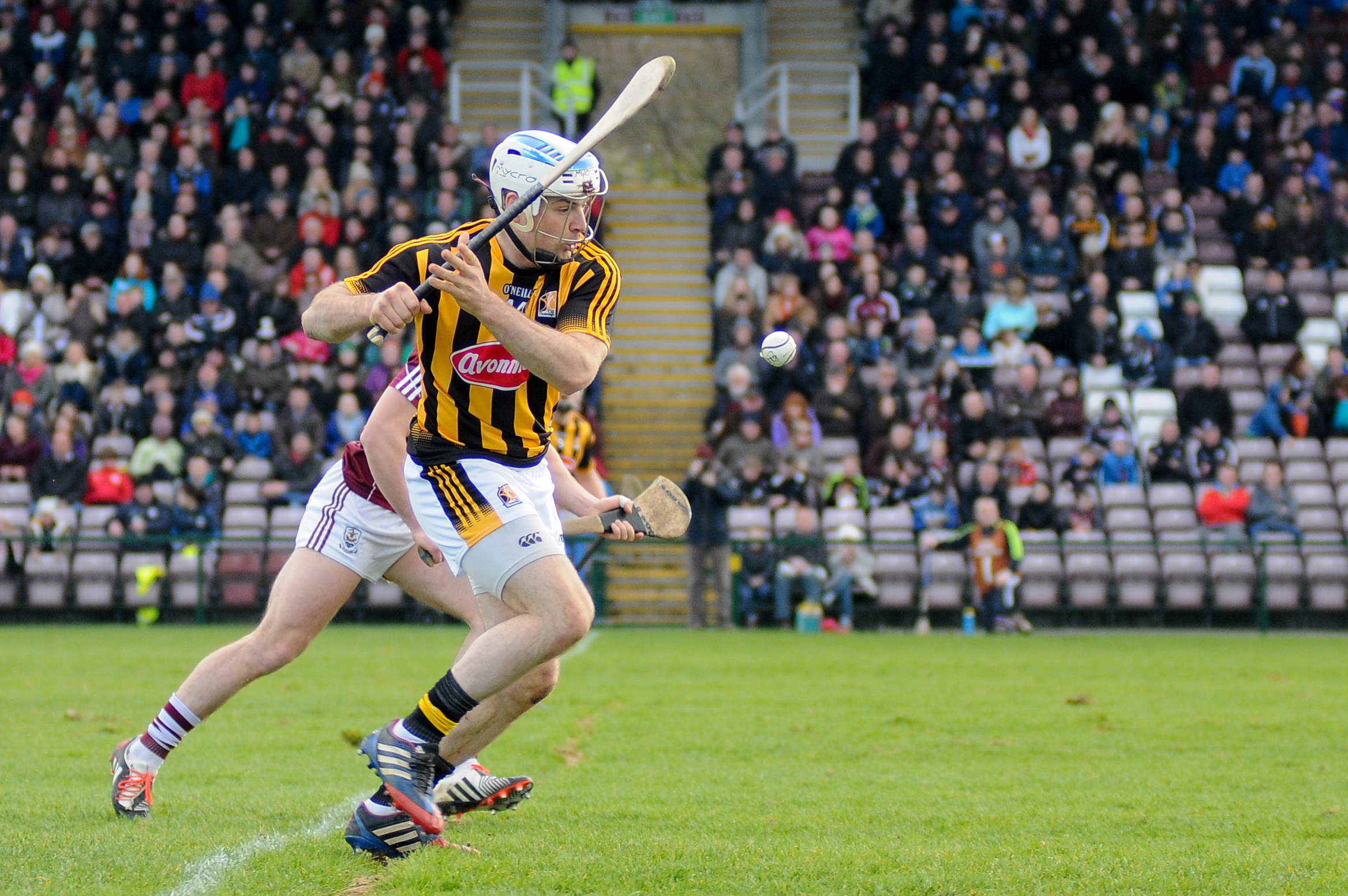 Jonjo Farrell in action for Kilkenny against Galway in the 2015 National Hurling League at Pearse Stadium